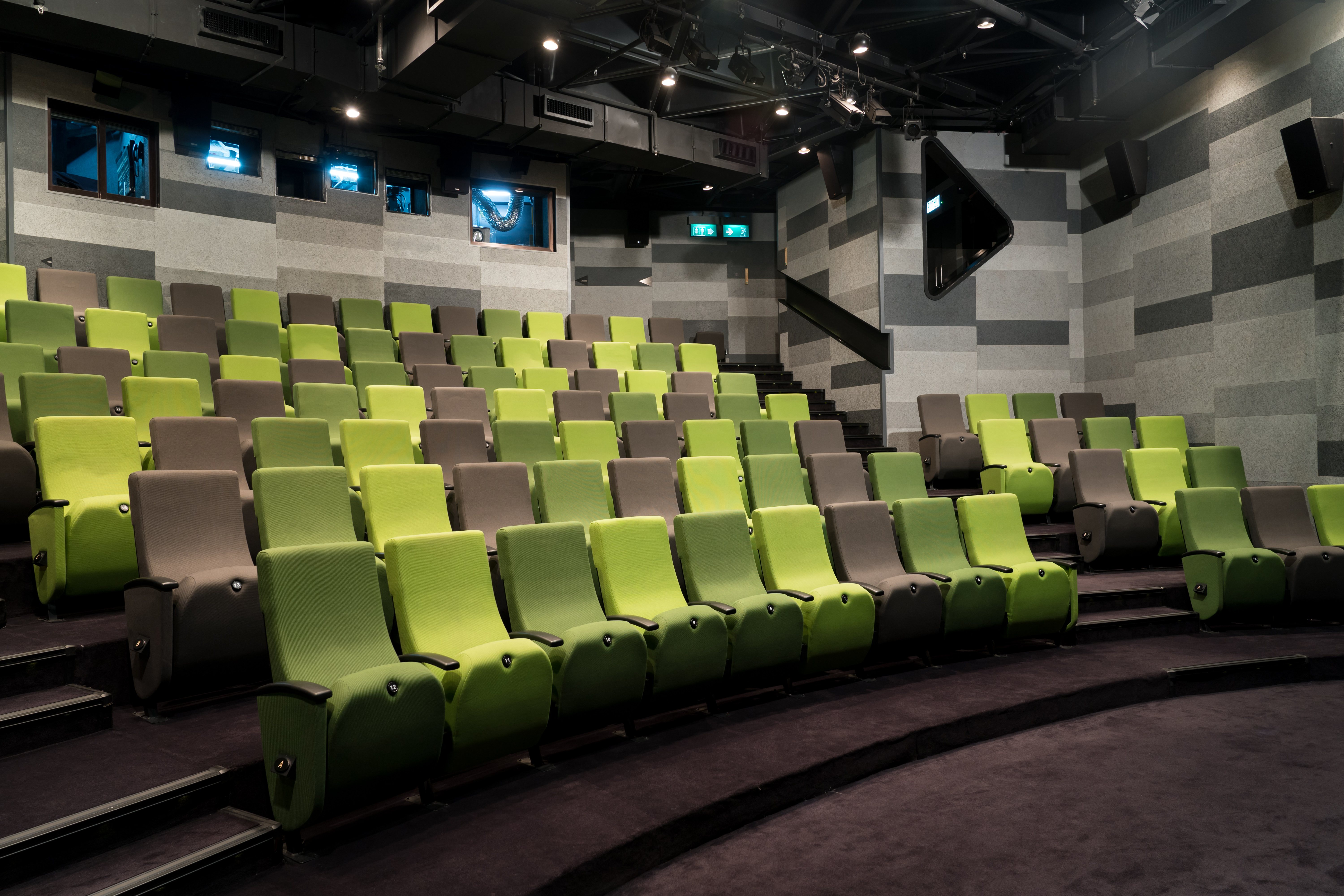 Cinema